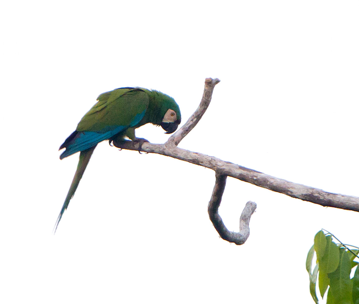 Chestnut-fronted macaw near Wild Sumaco Lodge, Ecuador